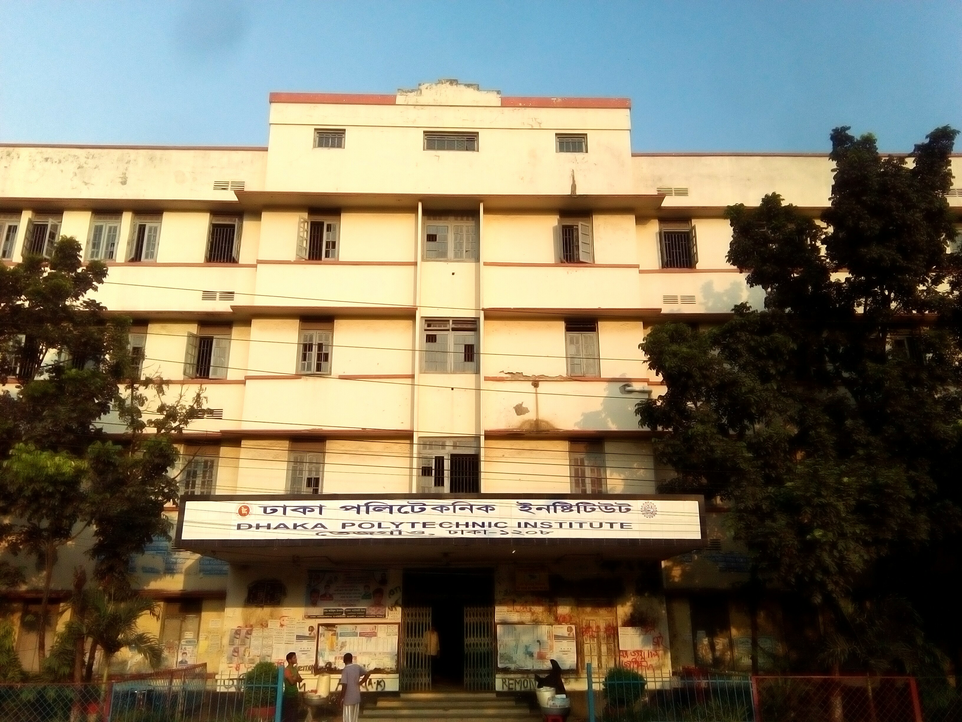 This is the picture of Dhaka Polytechnic Institute. It is the main gate of DPI also called the north gate.